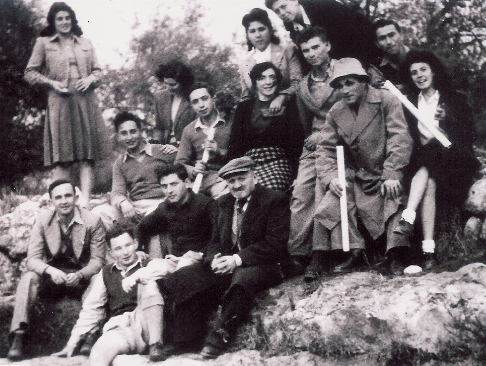 People of Israel